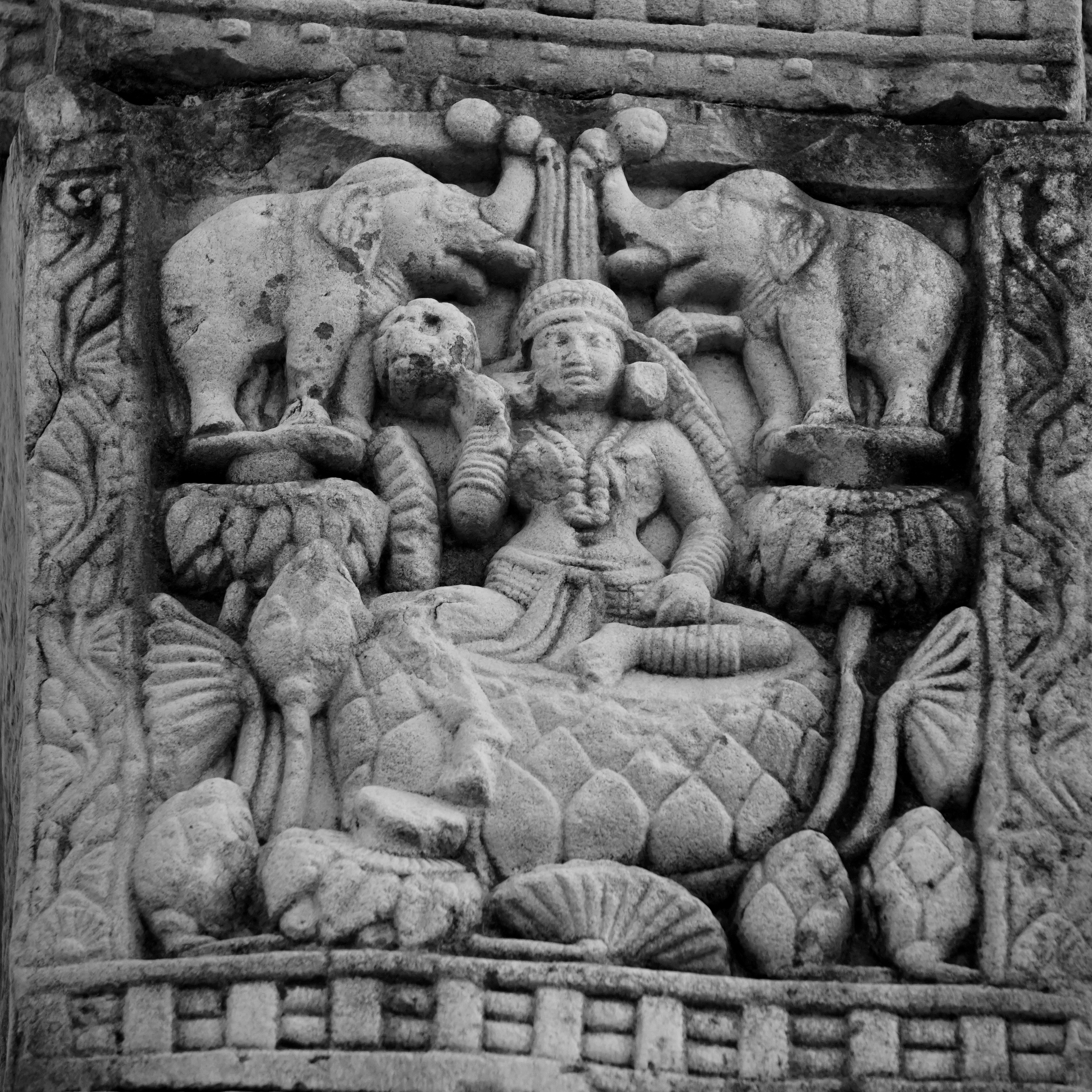 59 Queen Maya lustrated by Elephants, Sanchi Stupa no. 3, photograph by Anandajoti Bhikkhu Bhaja Caves, Lonavala, India